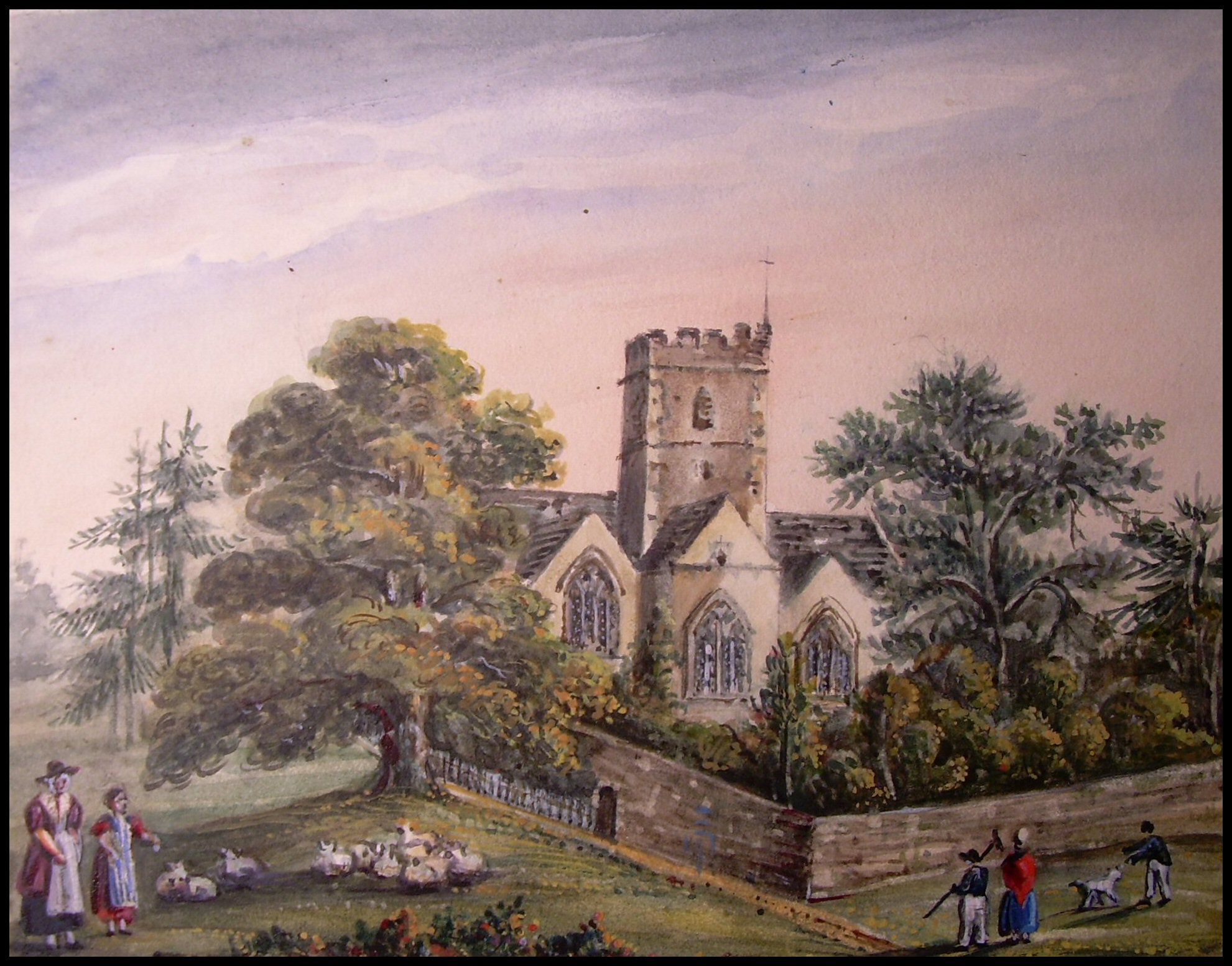 An image of an original watercolor dated 1837 but not signed by the artist of St. Mary's Priory in Abergavenny, Wales